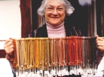 Miriam C. Rice displays the results of her original research into unlocking the full spectrum of color using natural dyes derived from fungi.